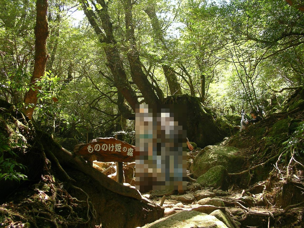 Shiratani Unsuikyo (aka Princess Mononoke's Forest) in Yakushima, Japan